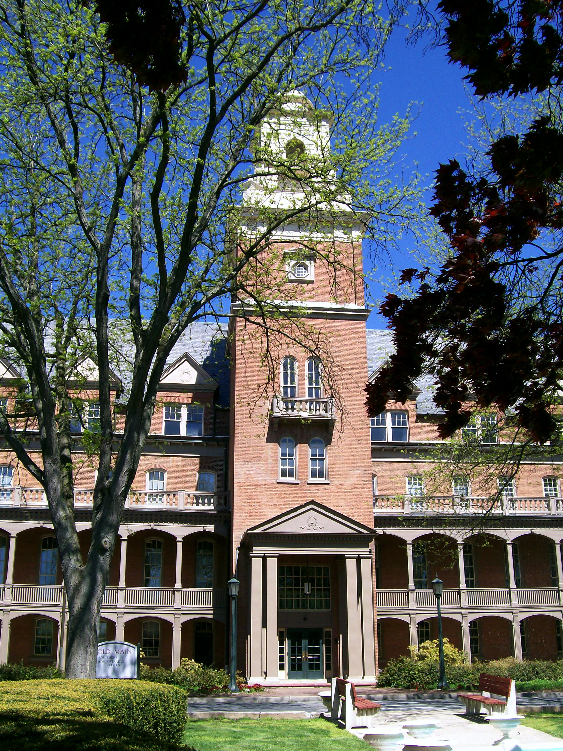 My own photo of Old Main, Shippensburg University - George Boeree